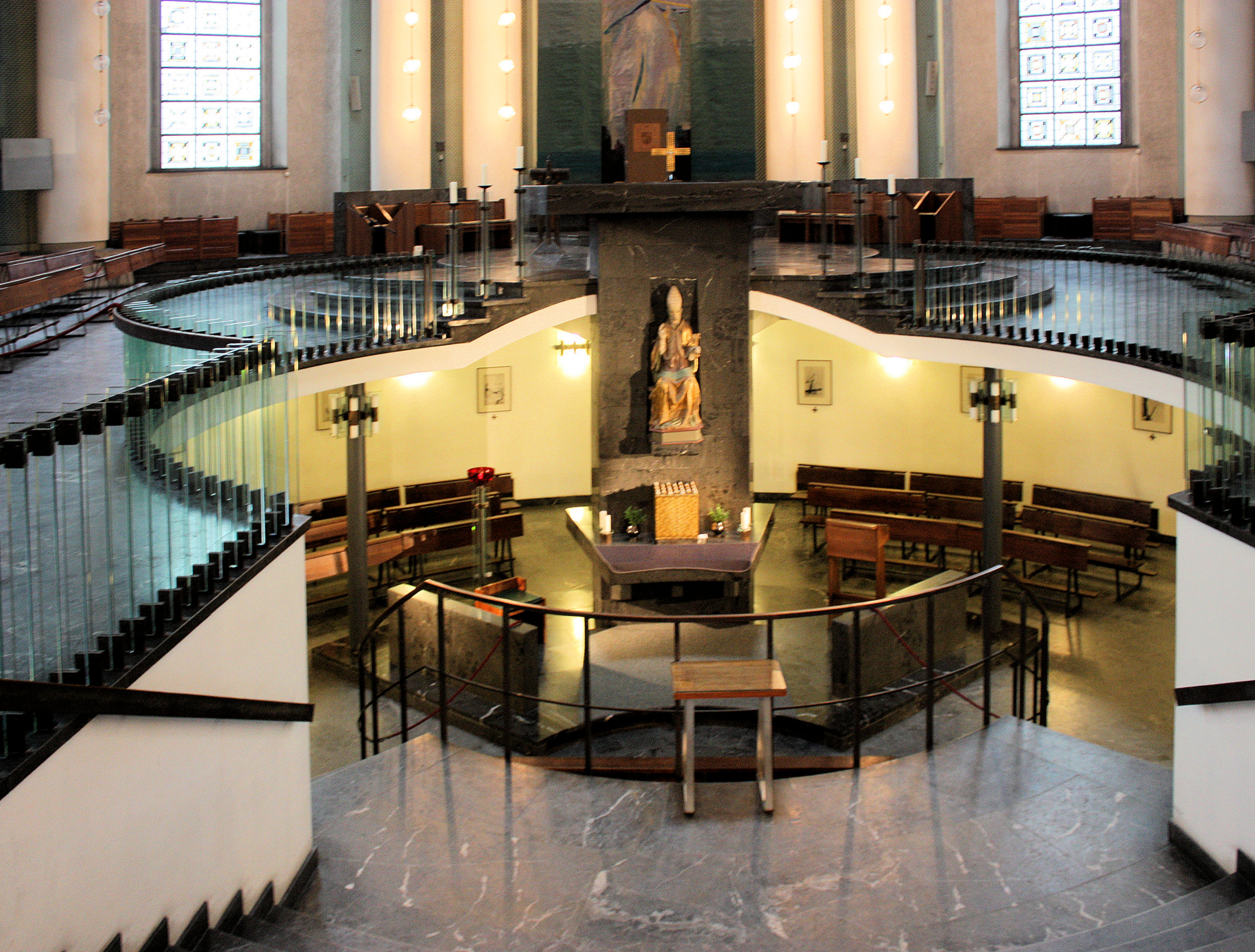 Berlin-Mitte, St.Hedwig´s Cathedral, the altar